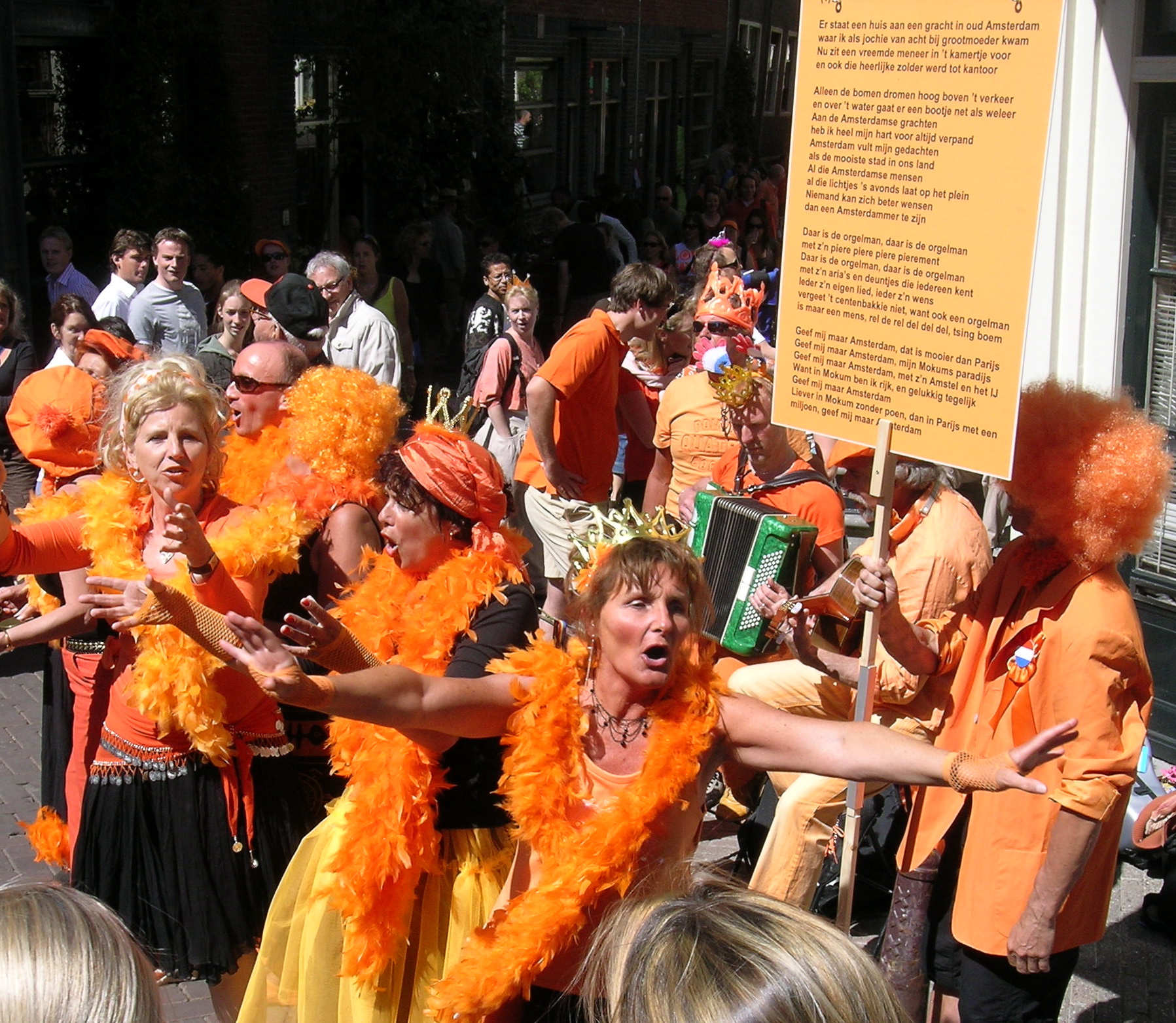 Women dressed in orange during Queen's Day in the Netherlands. People dressed in orange in Amsterdam during Queen's Day in 2007. Koninginnedag 2007 in the Jordaan in Amsterdam. A groups singing the most famous Jordaan-song 'Geef mij maar Amsterdam' ('Just give me Amsterdam' or thereabouts).